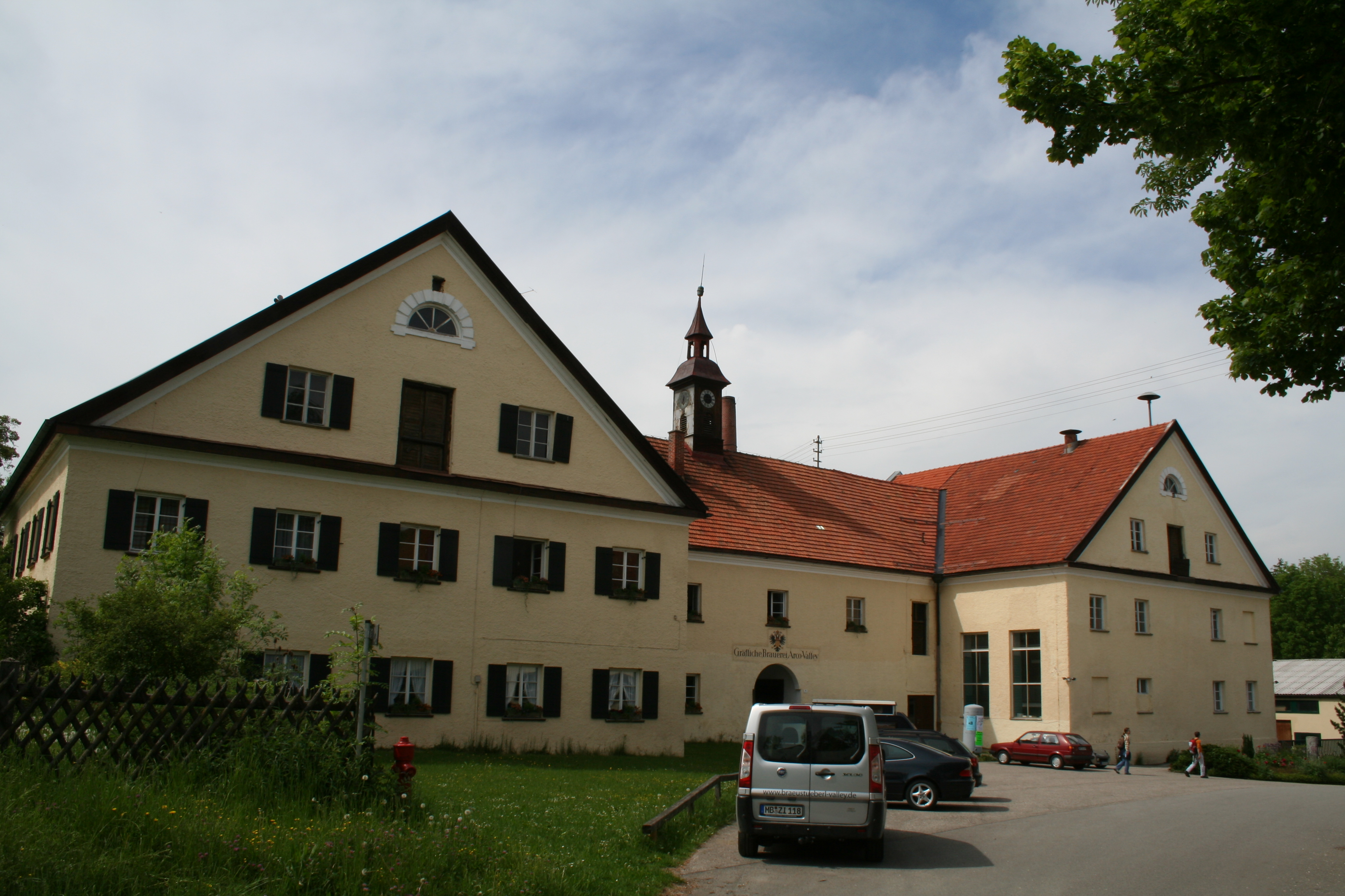 Schloss Valley in Valley, Bavaria, owners of Graf Arco Brewery